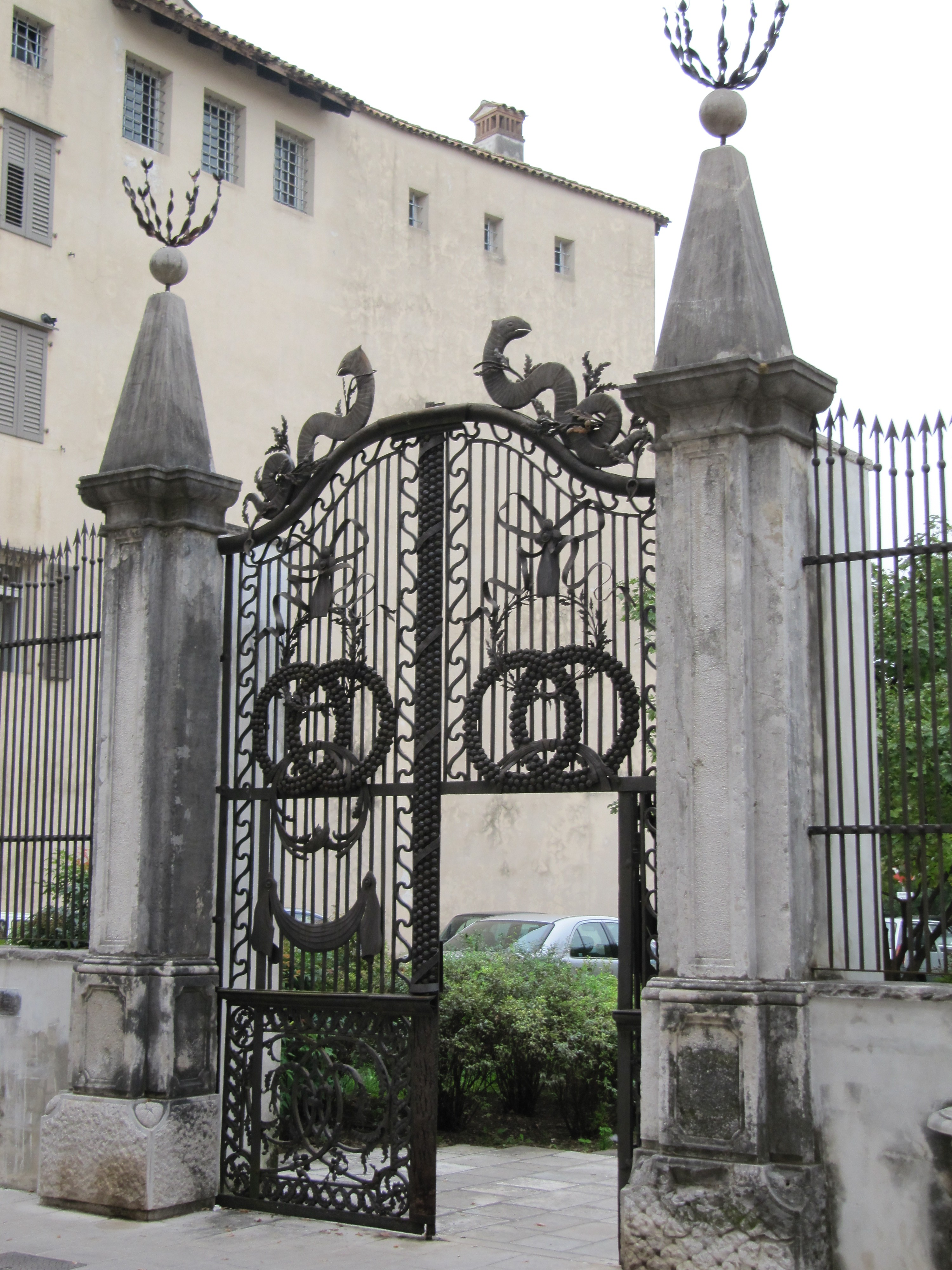 The gate of the ghetto of Gorizia, Italy. Now, it is the gate of the park dedicated to Bruno Farber, he was deportated in Auschwitz when he was three months.